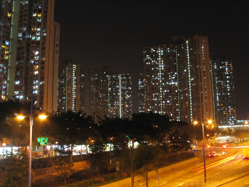 天耀邨夜景 Night view of Tin Yiu Estate